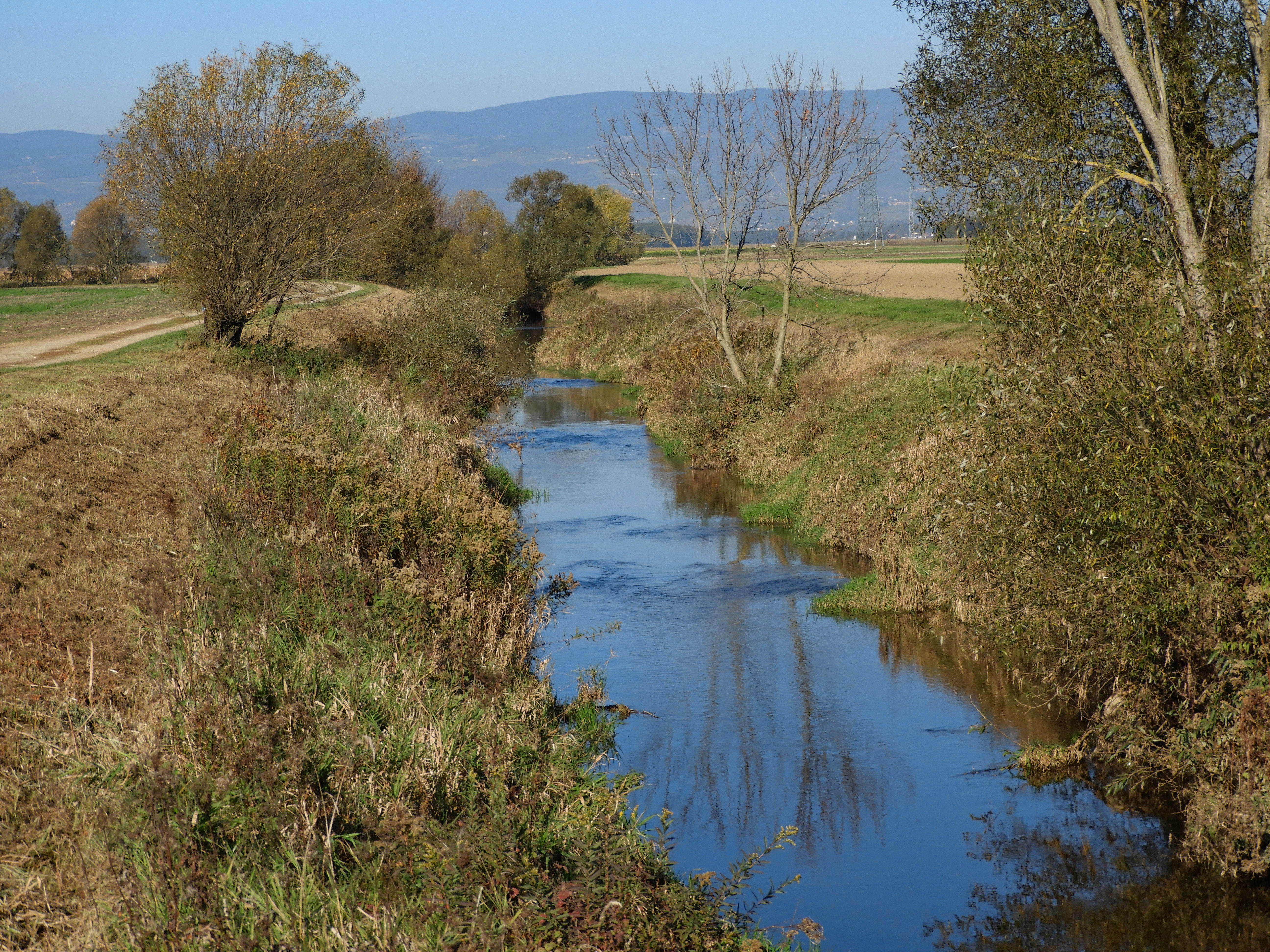 Regulated Polskava River at the village of Medvedce